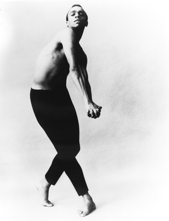 Portrait of Donald McKayle